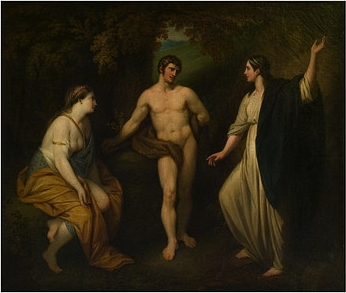 The Choice of Hercules between Virtue and Pleasure